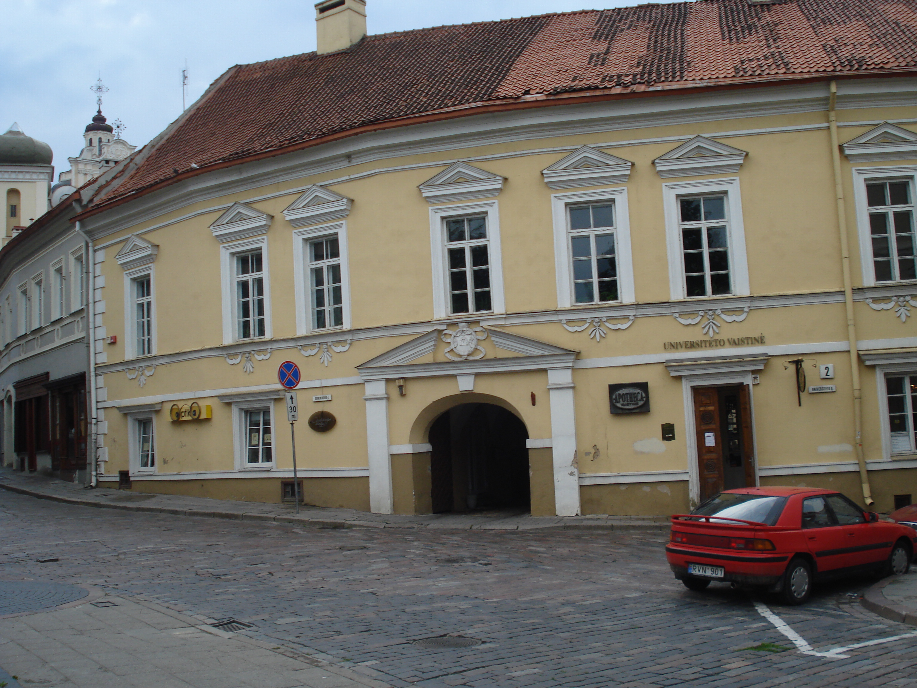 Brzostowski Palace in Vilnius, Universiteto g. Probabely reconstruction by Marcin Knackfus